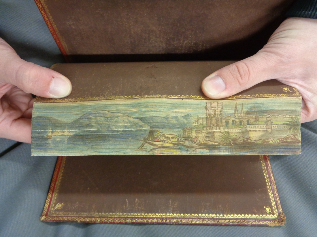 Fore-edge painting, a pendrawing and aquarelle in shades of blue, green, yellow and red,depicting a lake surrounded by mountains and on the righthand side a castle with docking place and boats. From the Special Collections of the National Library of the Netherlands , KW 1740 F 1